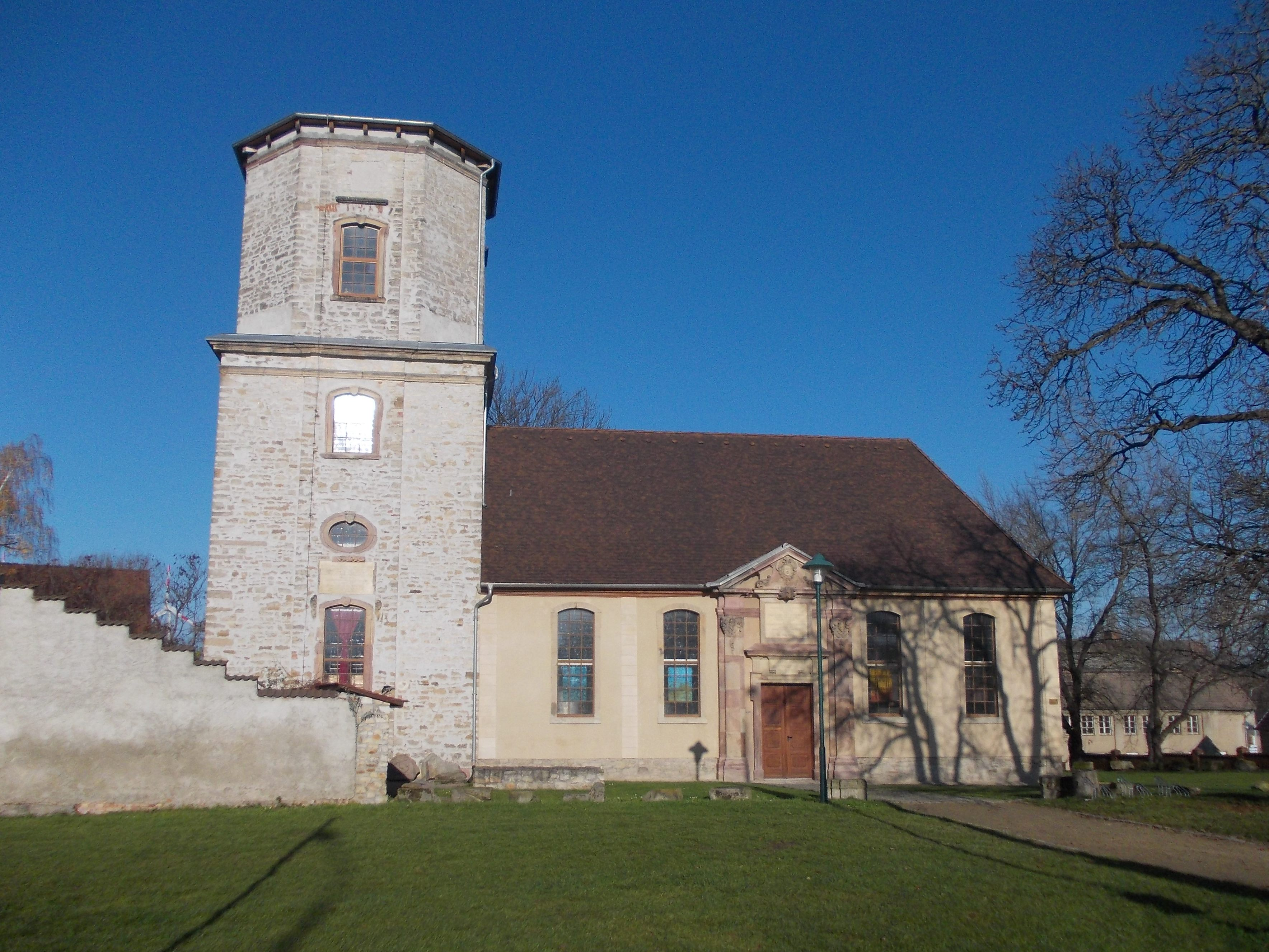 Oberbeuna church ("Hoppenhaupt Church"), Merseburg, district: Saalekreis, Saxony-Anhalt